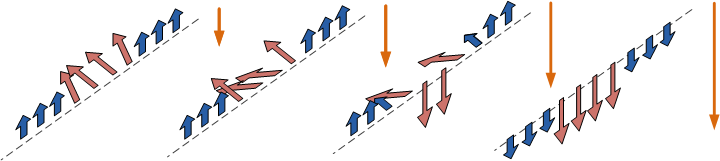 Illustration of magnetic moments of exchange spring magnet.